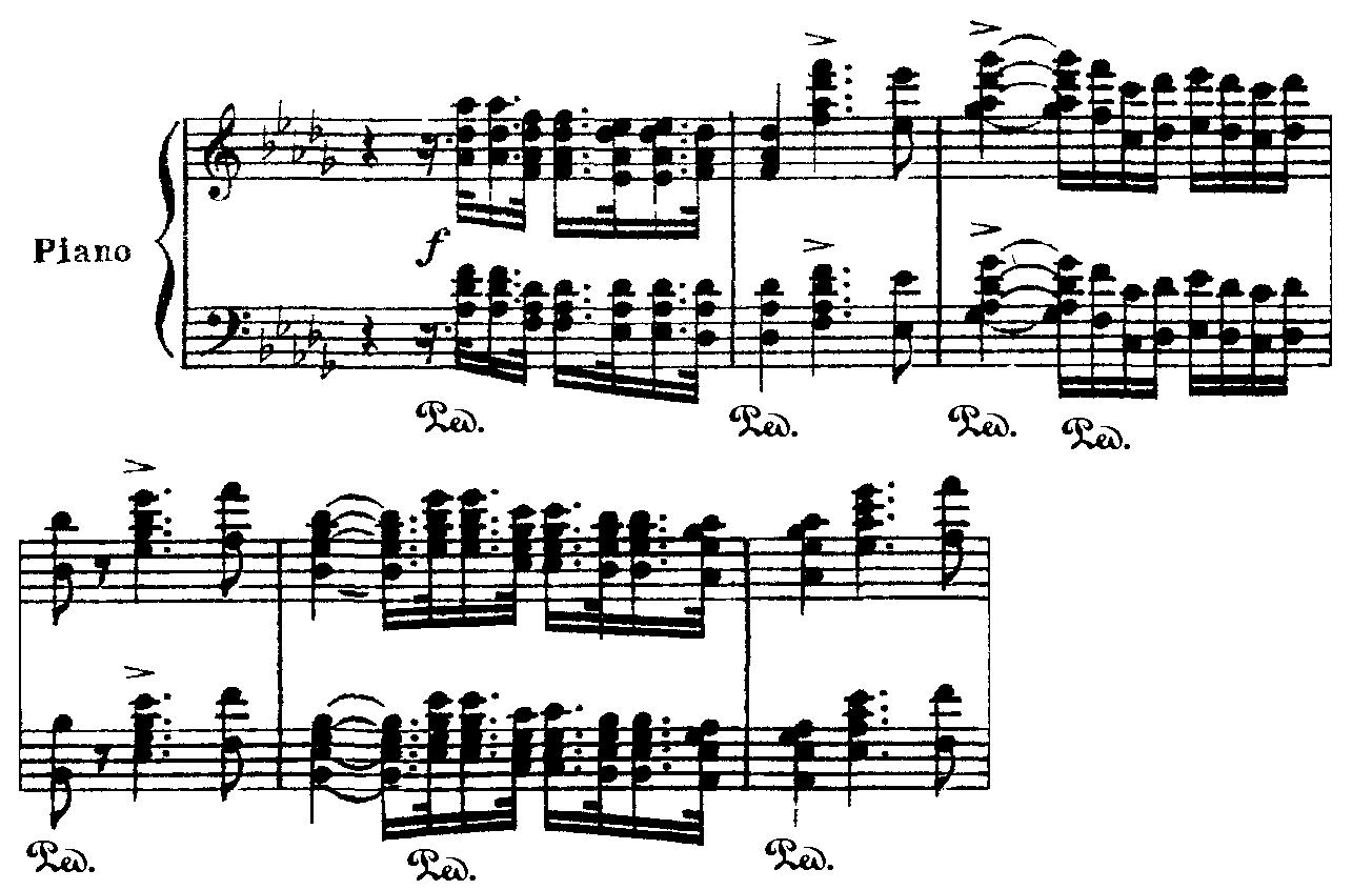 The theme of the introduction played by piano. The original score was performed on October 25 1875 in Boston (Massachusetts) conducted by Benjamin Johnson Lang and played by Hans von Bülow.[1]